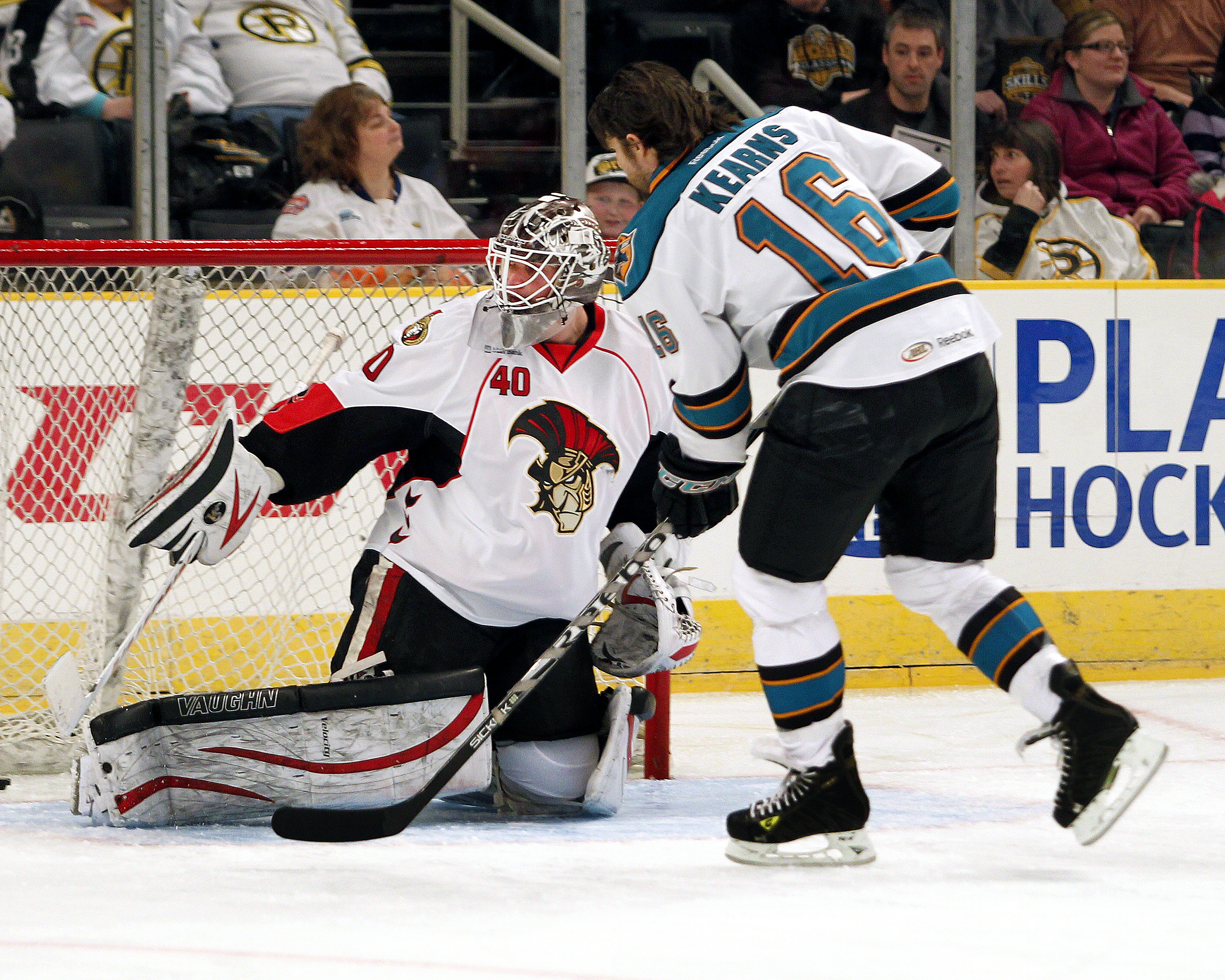 Robin Lehner and Bracken Kearns, 2013 AHL All-Star Skills Competition